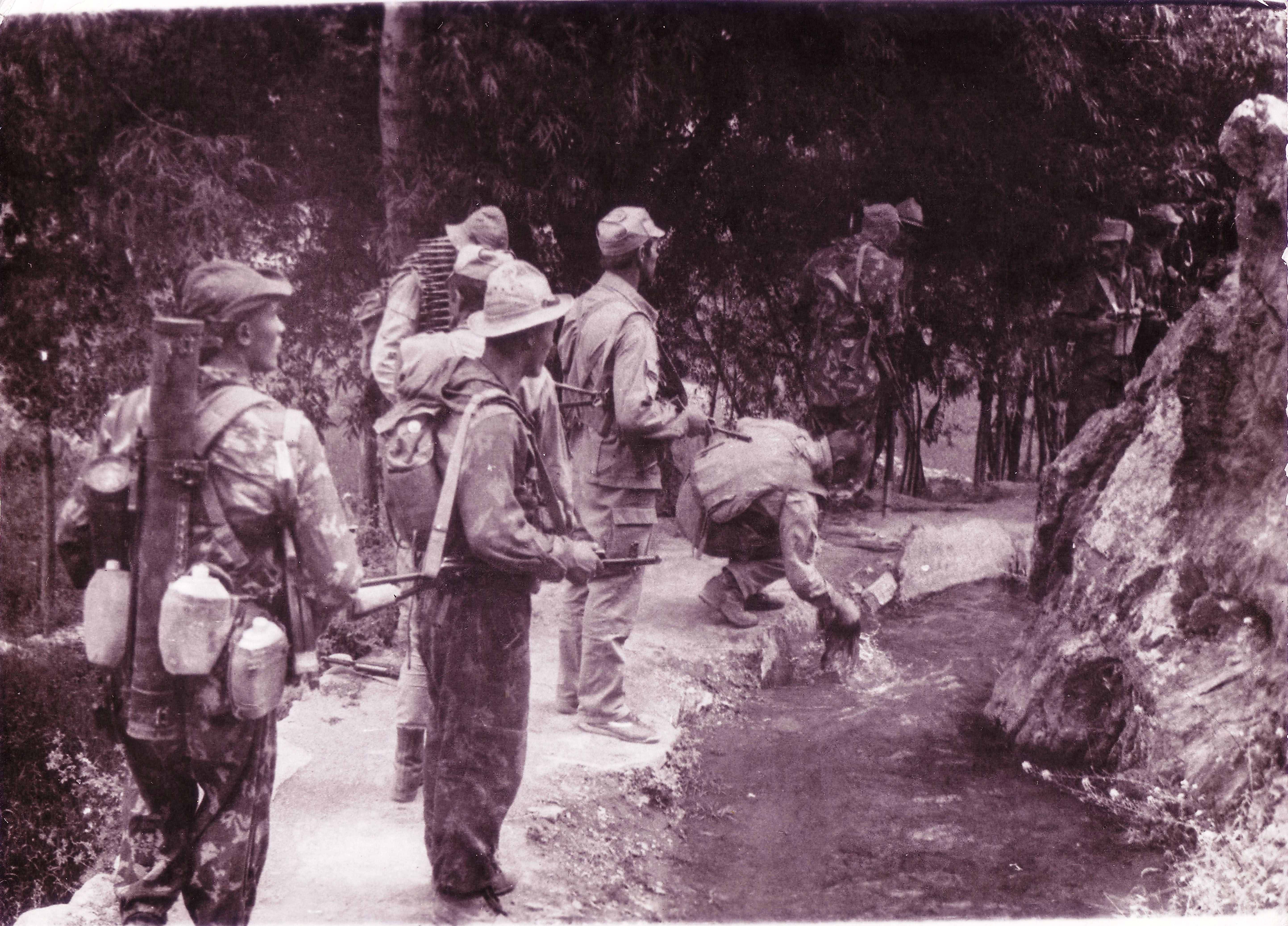 Soviet Army in Afgan, 1986. Specnaz in mount.